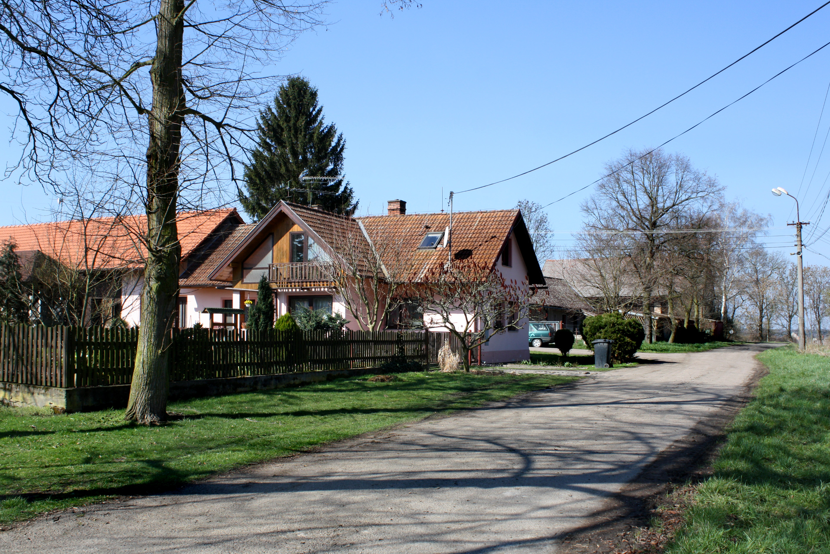 Small common in Malá Strana, part of Chotěšice village, Czech Republic